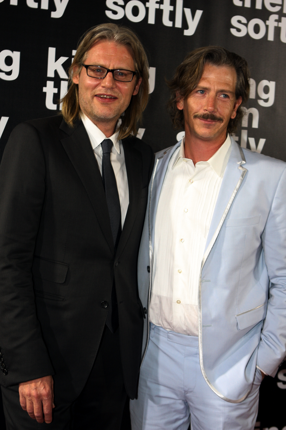 Andrew Dominik & Ben Mendelsohn at Killing Then Softly movie premiere, Dendy Opera Quays